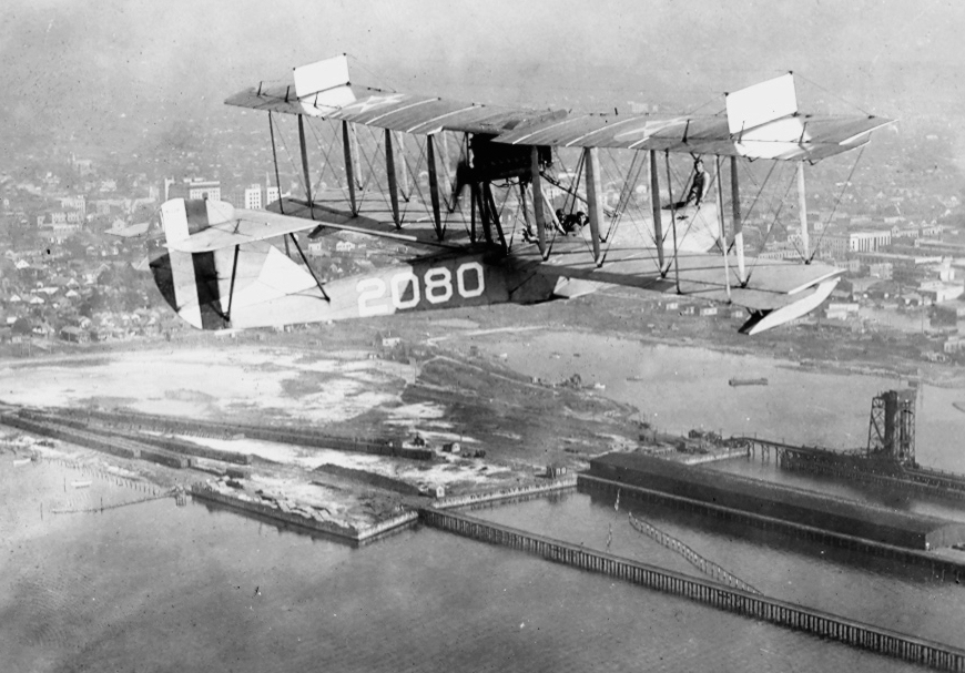 A U.S. Navy Curtiss HS-2L in flight near downtown Pensacola, Florida (USA), 1920s.